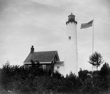 St. Helena Island Lighthouse U.S. Coast Guard Historic Light Station Information & Photography: Michigan